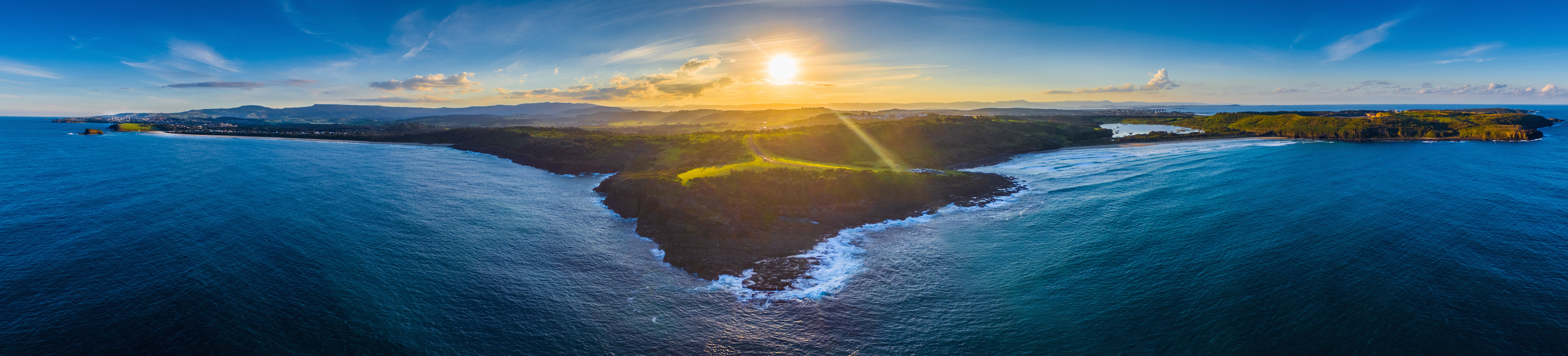 Stitched panorama of Killalea State Park, just south of Shell Harbour, NSW